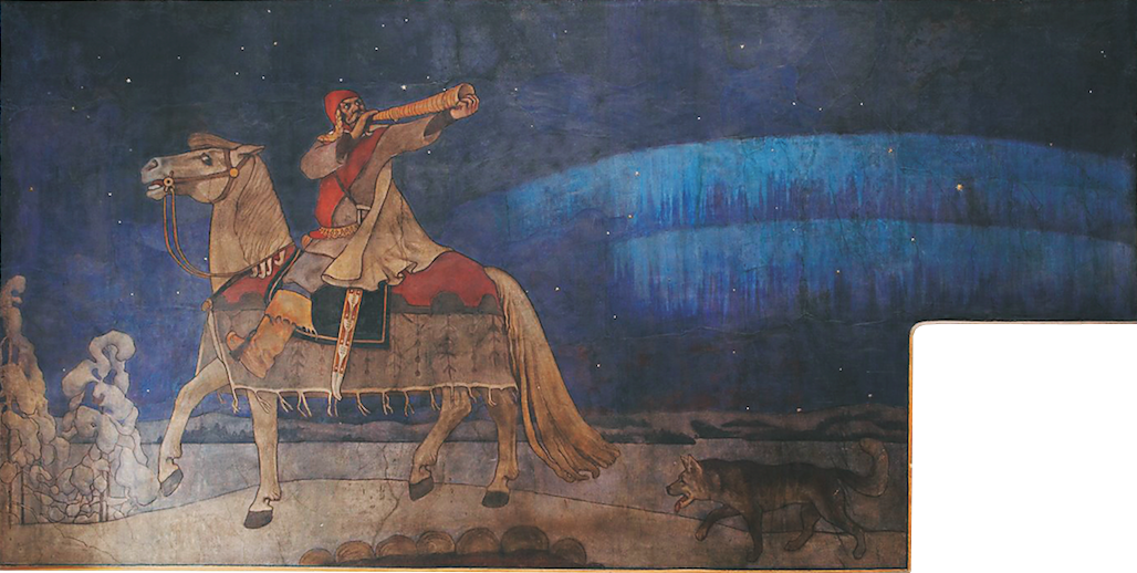 The large hole is a cropped-out doorway. Because of convoluted copyright it can’t be featured in this image.